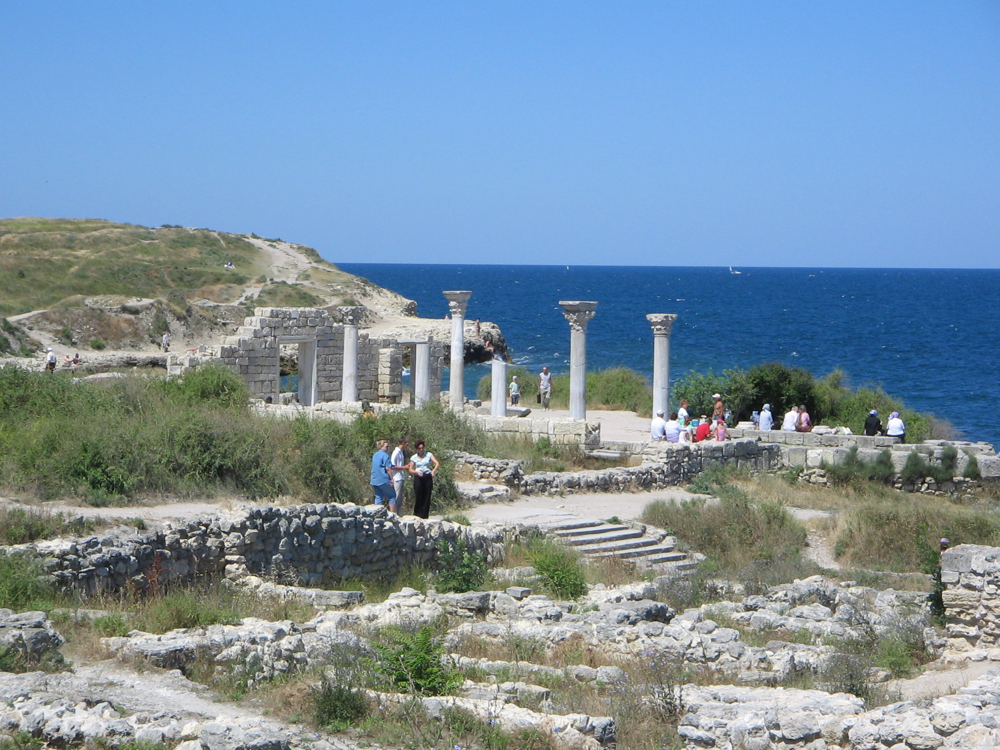 Chersones, Sevastopol, Ukraine